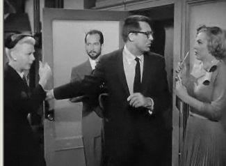 Cropped screenshot of (L-R) Ginger Rogers, Robert Cornthwaite, Cary Grant and Marilyn Monroe from the trailer for the film Monkey Business